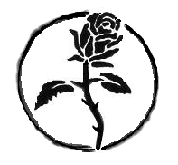 The anarchist symbol of a Black rose